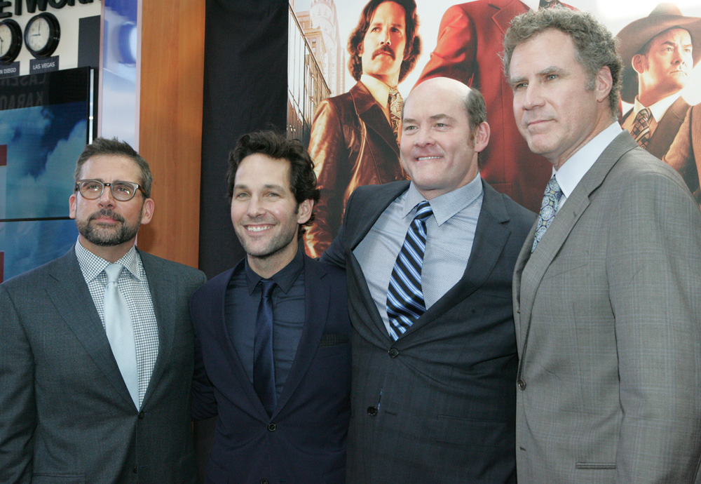 The Cast Anchorman at Anchorman 2 The Australian Premiere 2013.